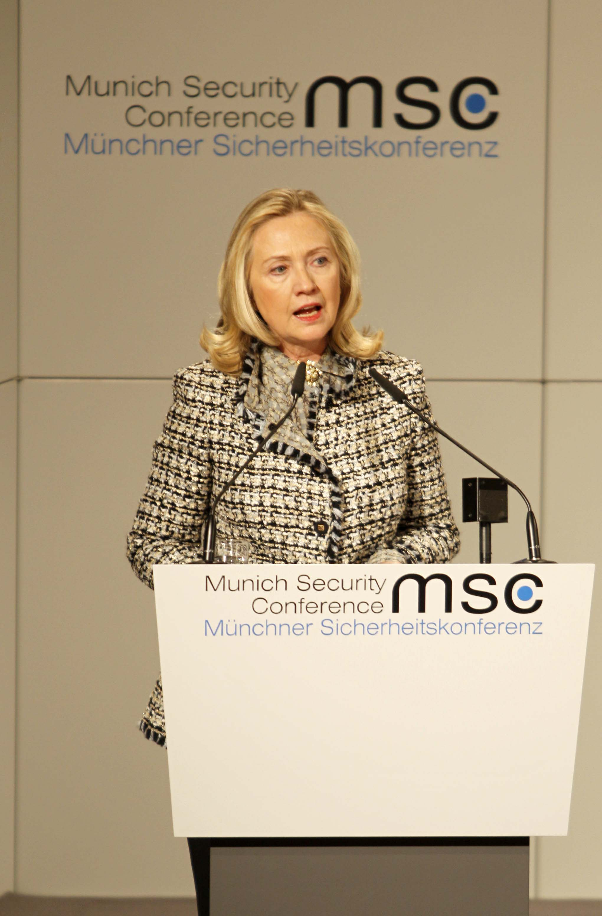 48th Munich Security Conference 2012: Hillary Clinton, Secretary of State, USA.